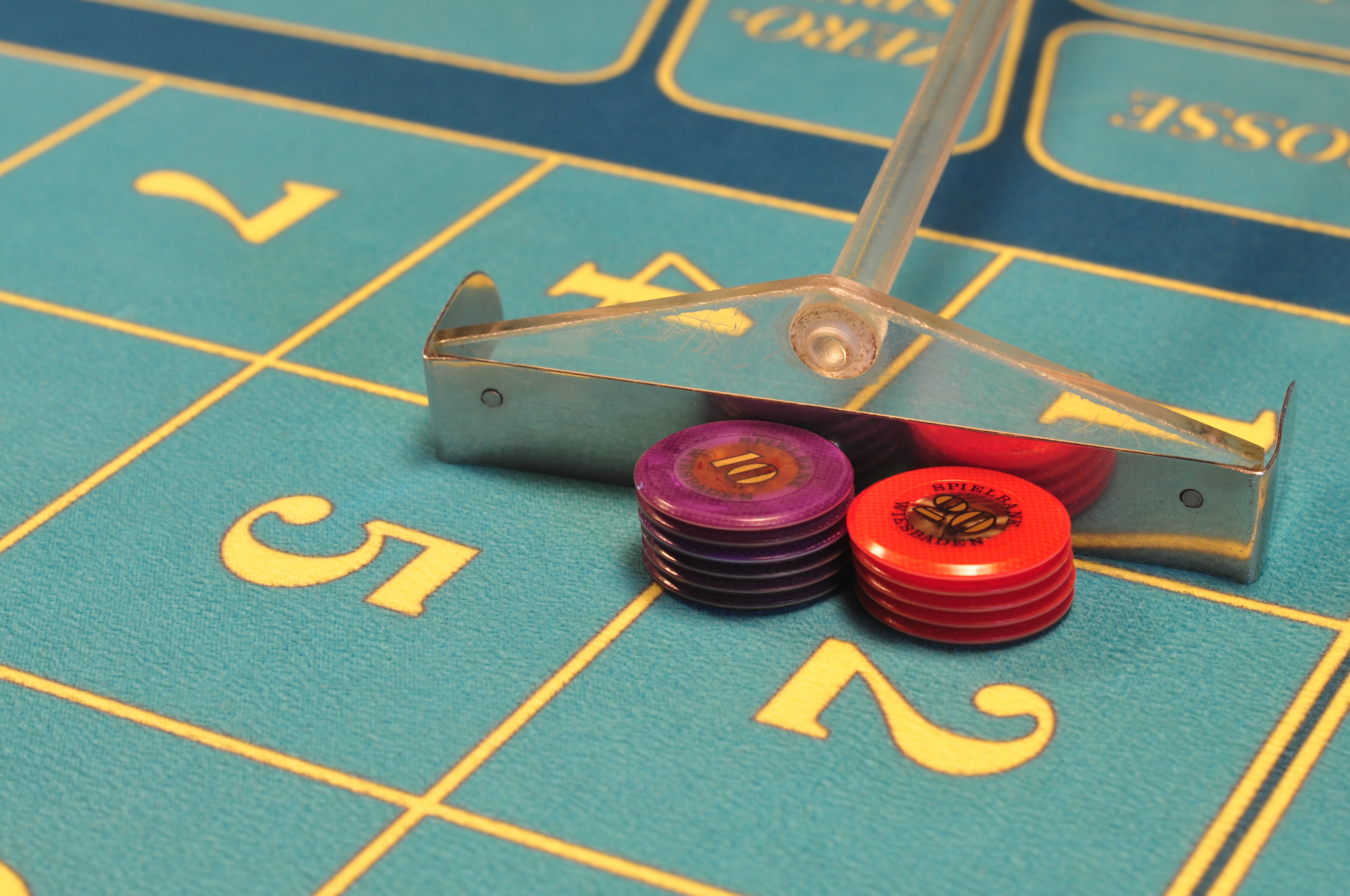 Wiesbaden, Germany, Spielbank Wikipedia im Landtag – Hessen 26.–28. Februar 2013 in Wiesbaden Fragen zur Nachnutzung Wenn Sie Fragen zur Nachnutzung dieses Bildes haben, können Sie sich jederzeit gern an wenden